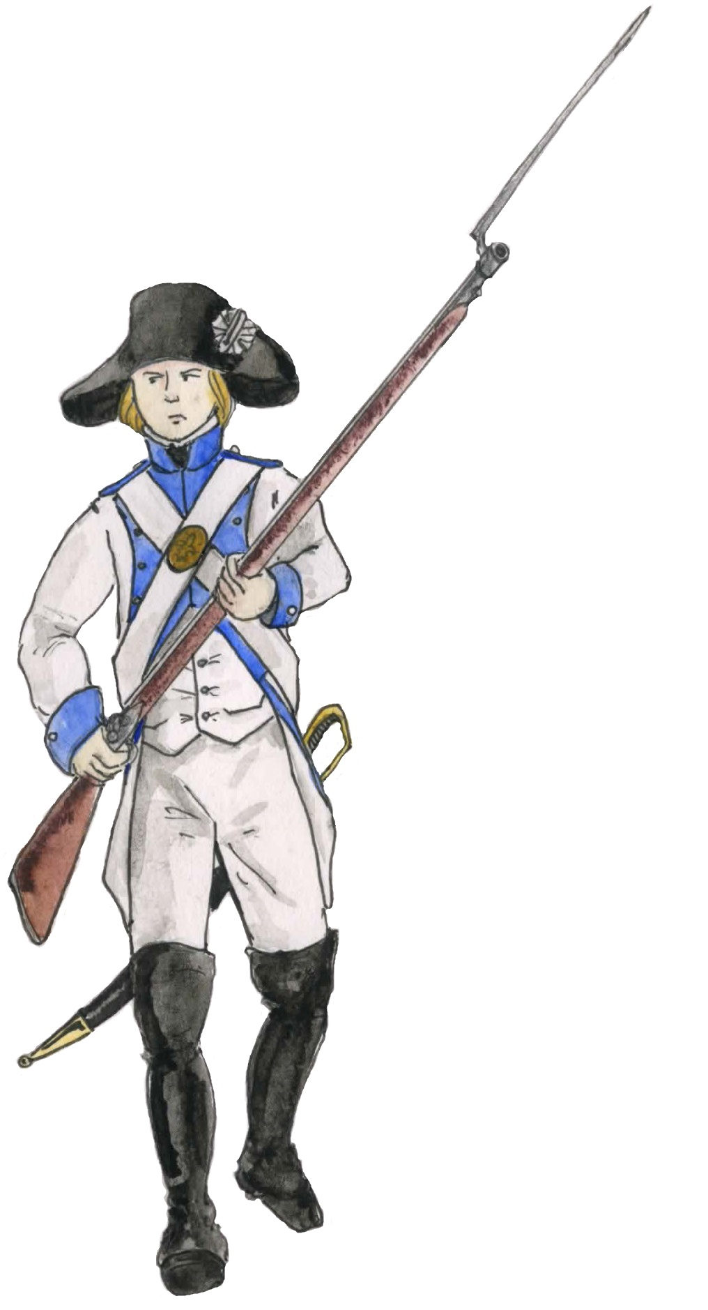 regiment : d'Hervilly.